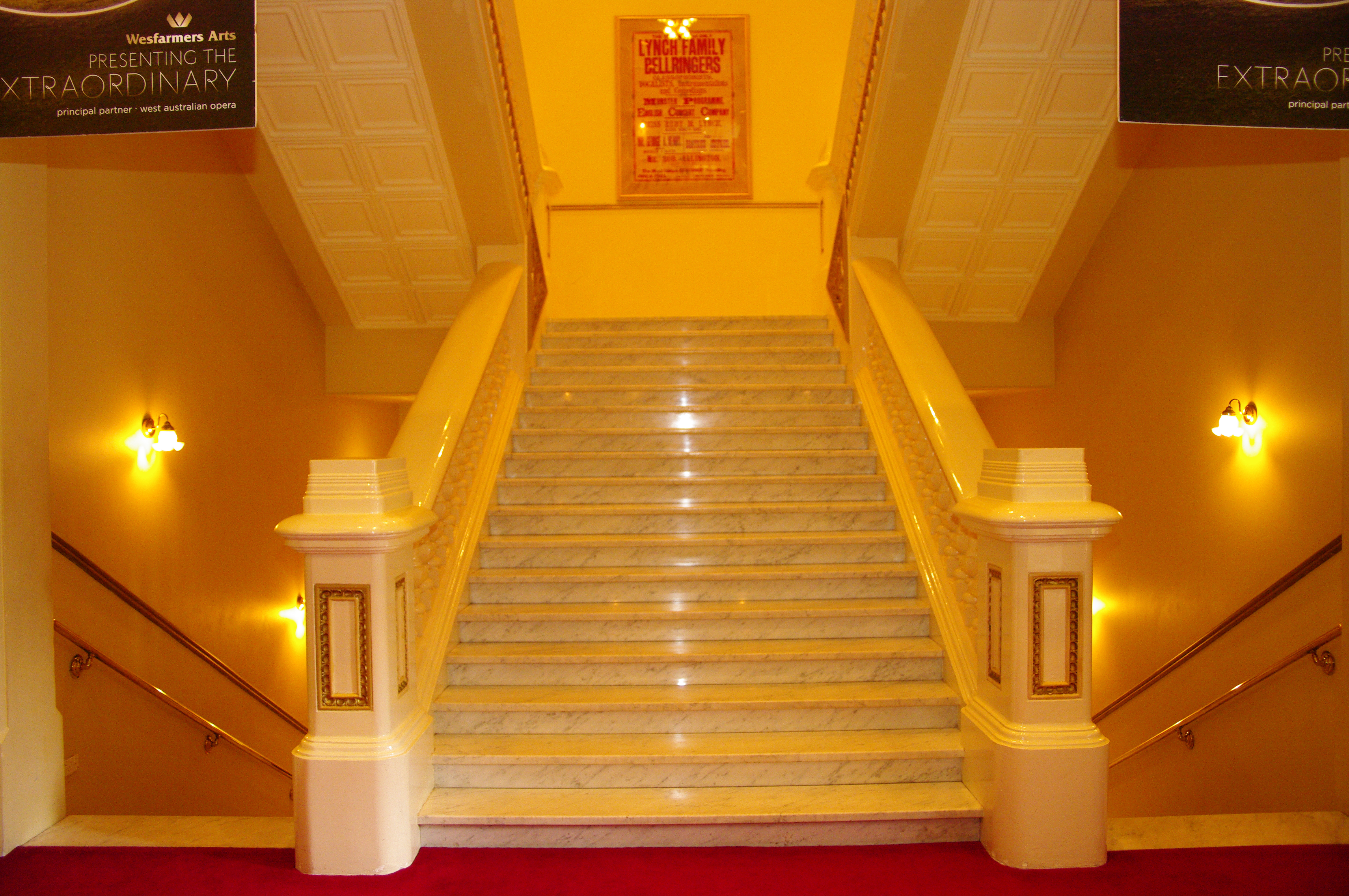 Photographs taken during Heritage Day Perth Western Australia first level, stair leading down are the original stair, stairs heading up were added in the 1980's renovation to replace the outside enterance from King street